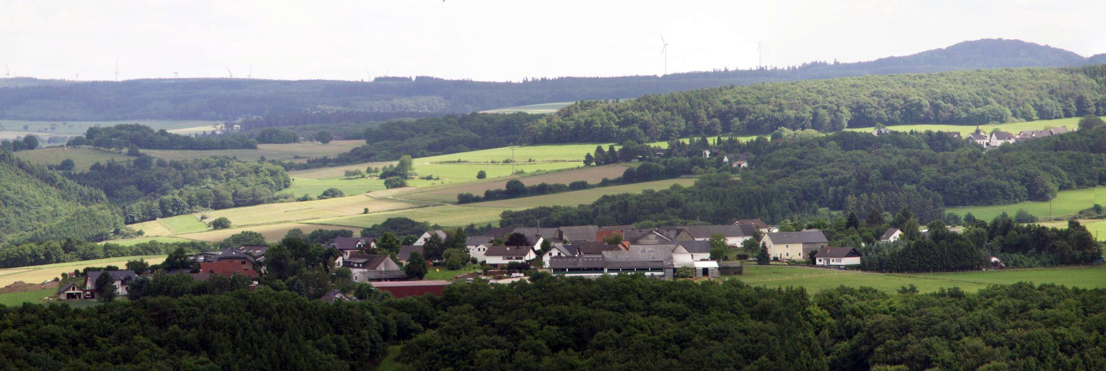 Trierscheid, Eifel, Germany